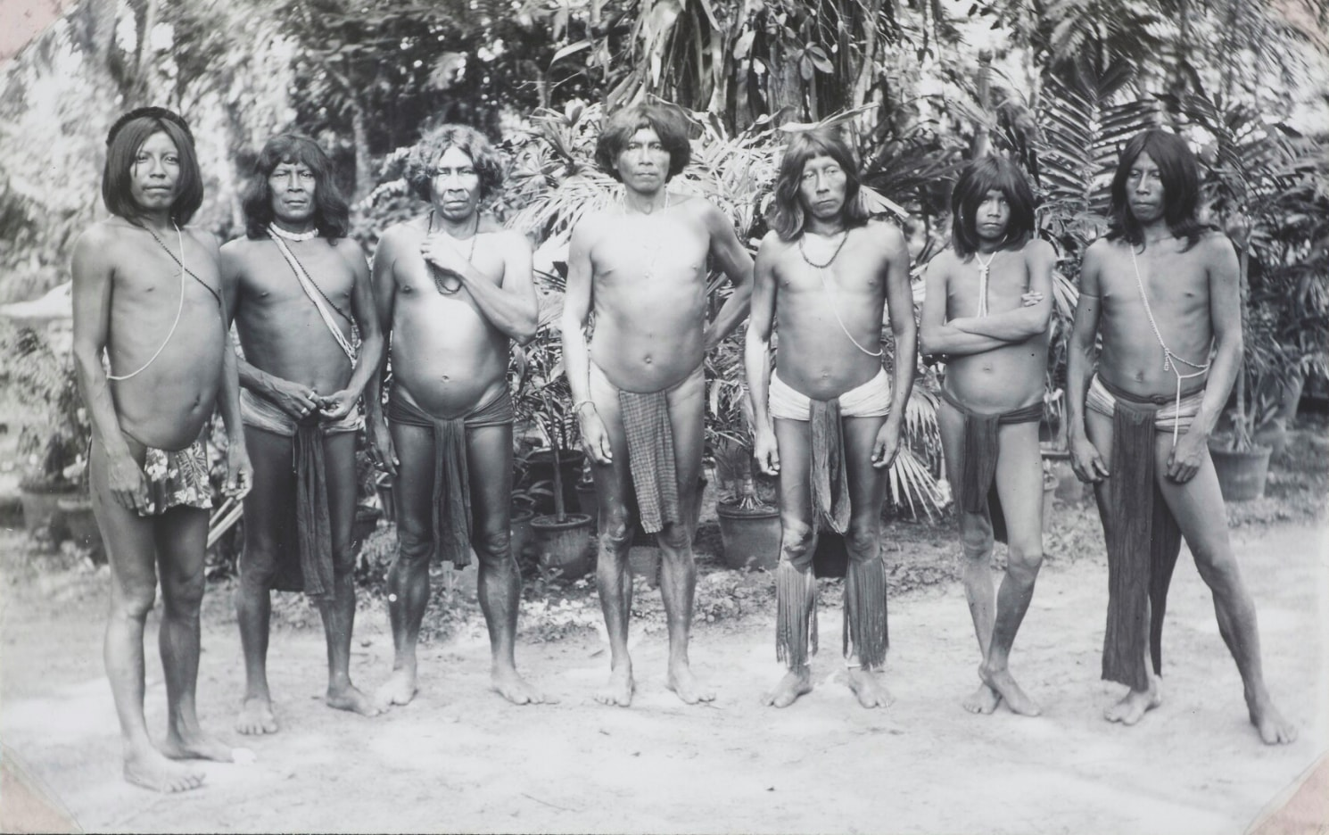 Wayana captain Apetina with company in the Cultuurtuin in Paramaribo.